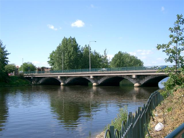 The Ormeau Bridge The Ormeau Bridge carries The Ormeau Road [A24], which is one of the main routes into Belfast from the south, across The River Lagan.